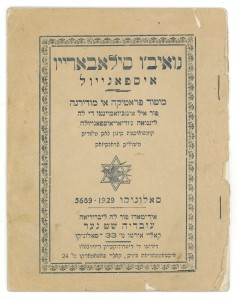 Nuevo Silibaryo Espanyol. Ladino textbook, Salonica, 1929